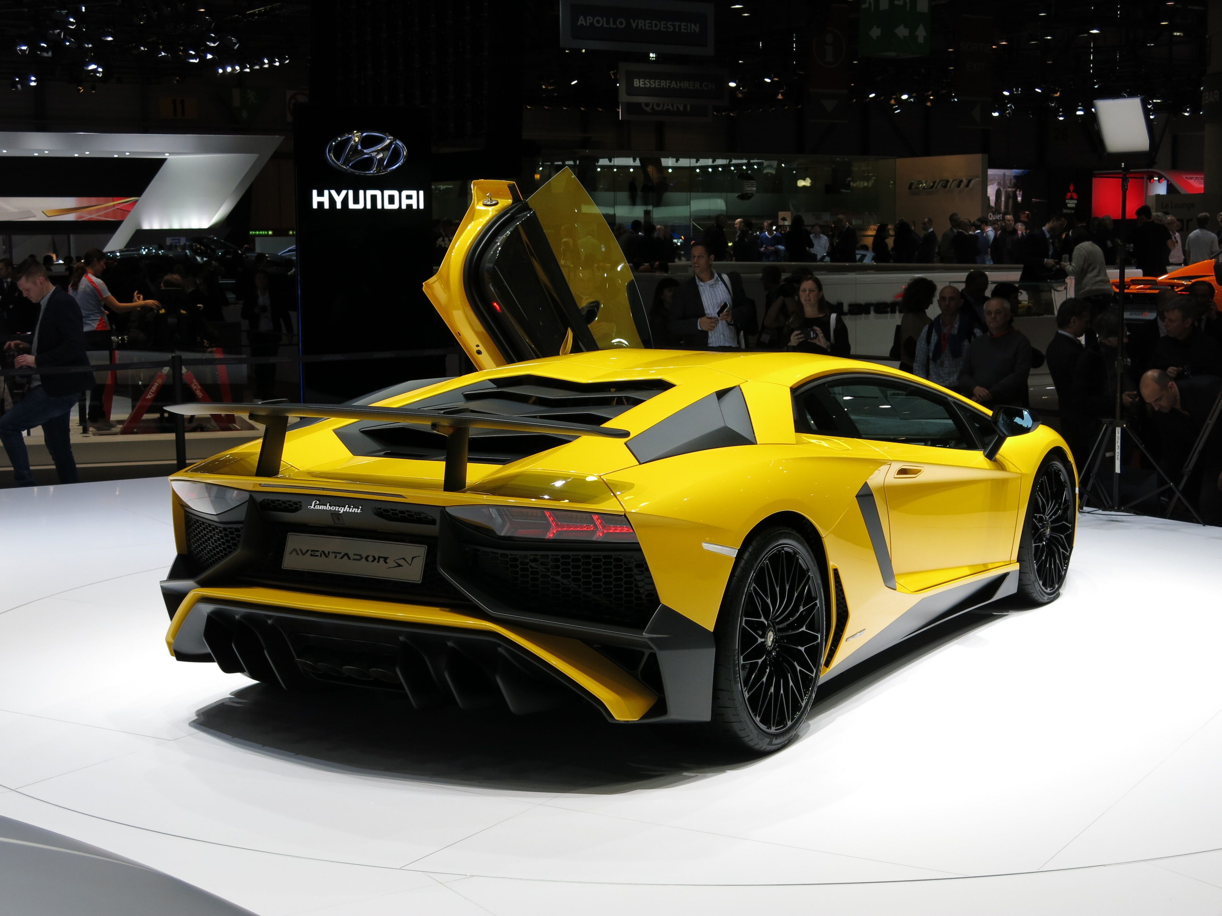 Geneva Motor Show 2015 (photo taken on the first press day)